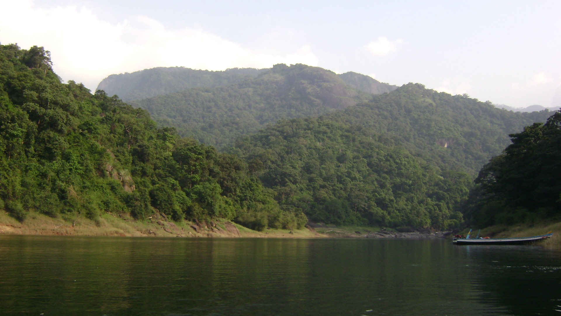 Papanasam reservoir